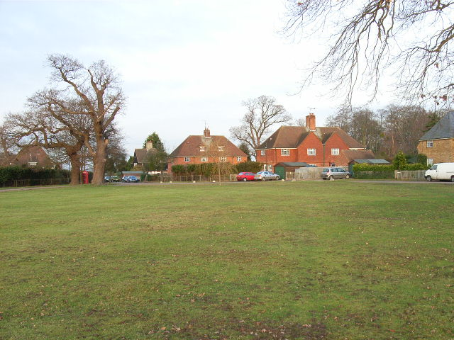 The Village, Windsor Great Park.